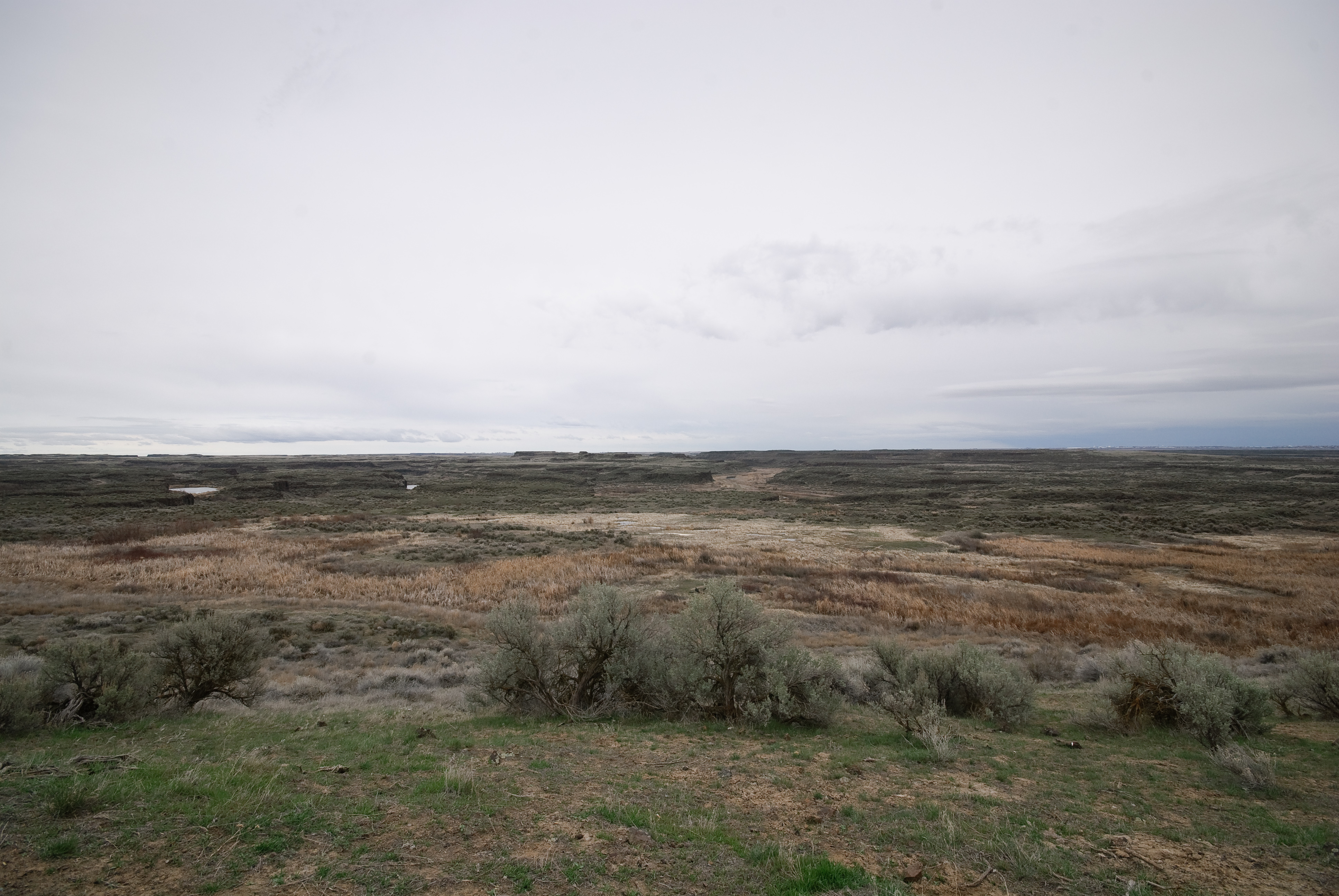 Drumheller Channels National Natural Landmark overlook. On McManamon Road northwest of Othello